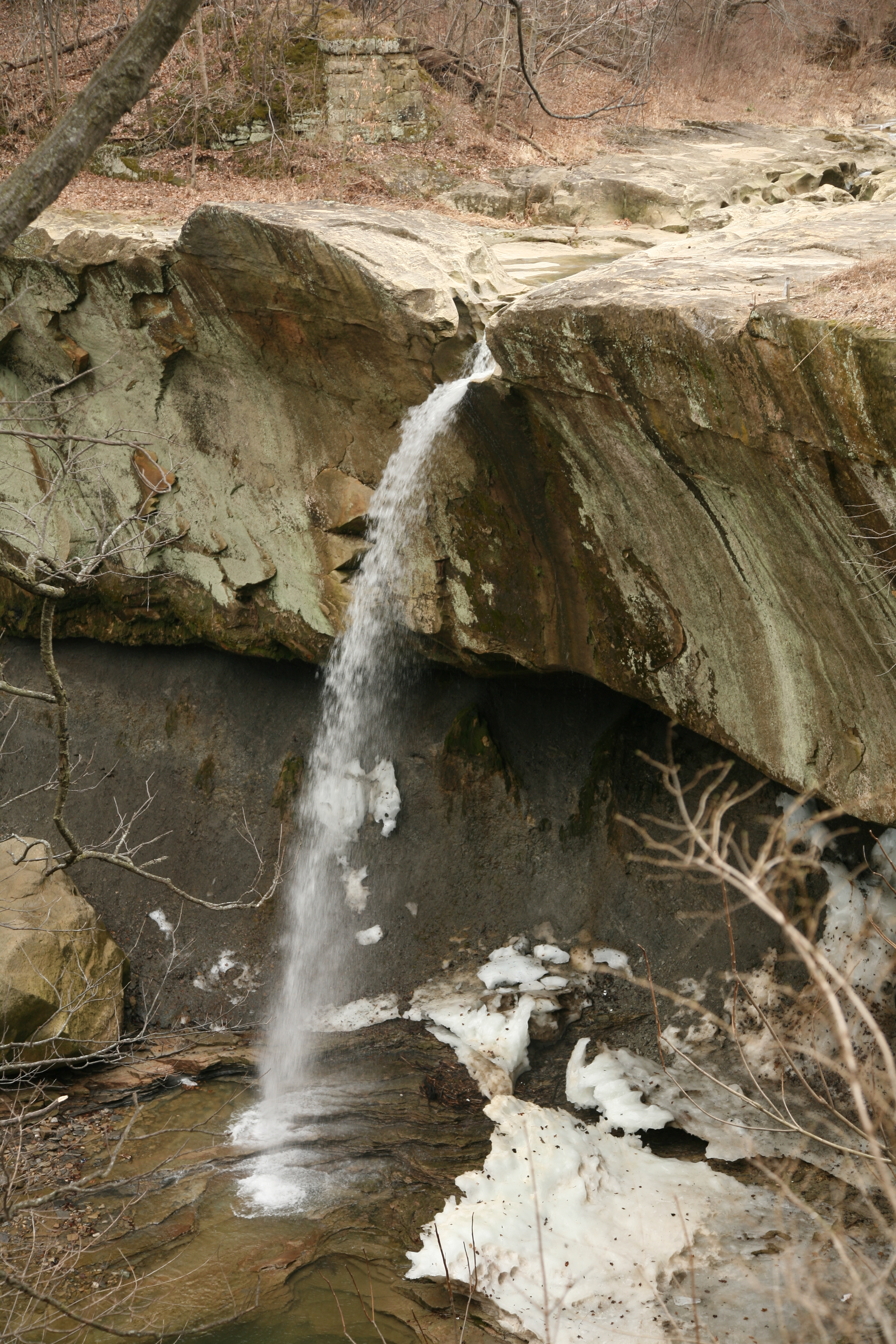 Williamsport Falls in Williamsport, Indiana. Supposedly Indiana's tallest free falling waterfall (approx 90ft)